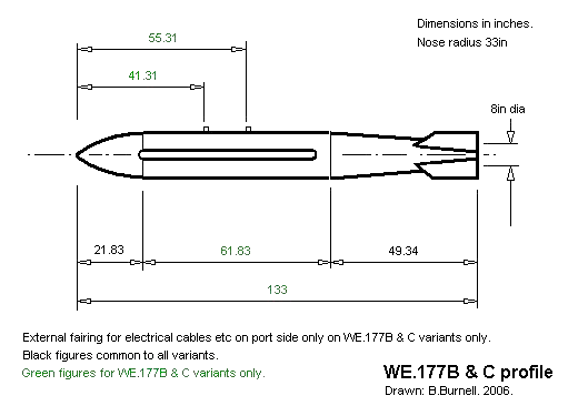 Png version of Image:WE.177B-profile.jpg created by me Ian Dunster 19:52, 26 May 2006 (UTC) using the original drawn and uploaded by Brian Burnell the copyright holder in this format. Summary Drawing Artist: Self